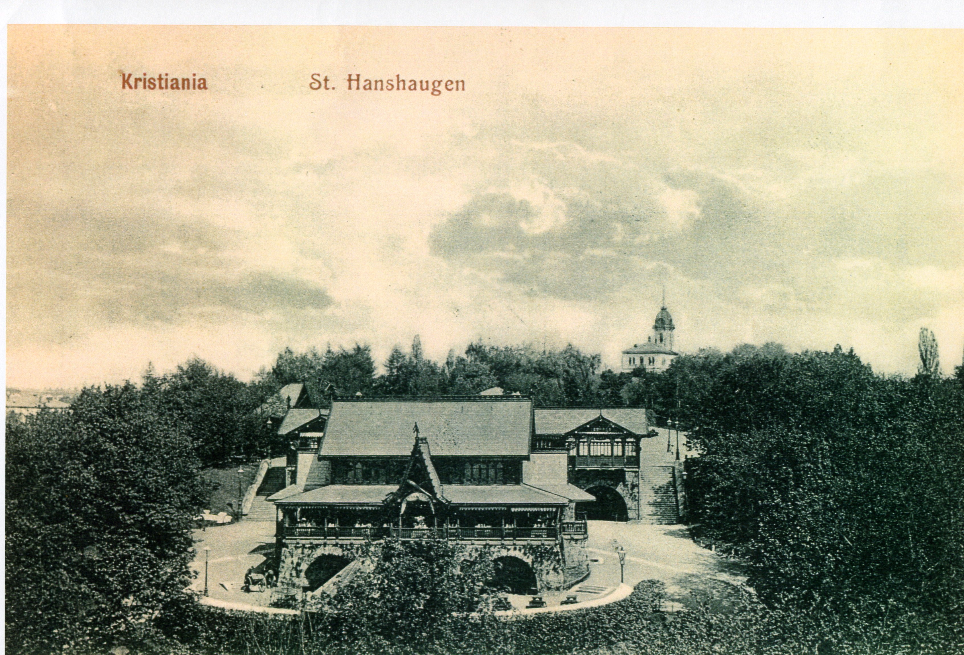 St. Hanshaugen park, restaurant "Hasselbakken", probably early 20th century